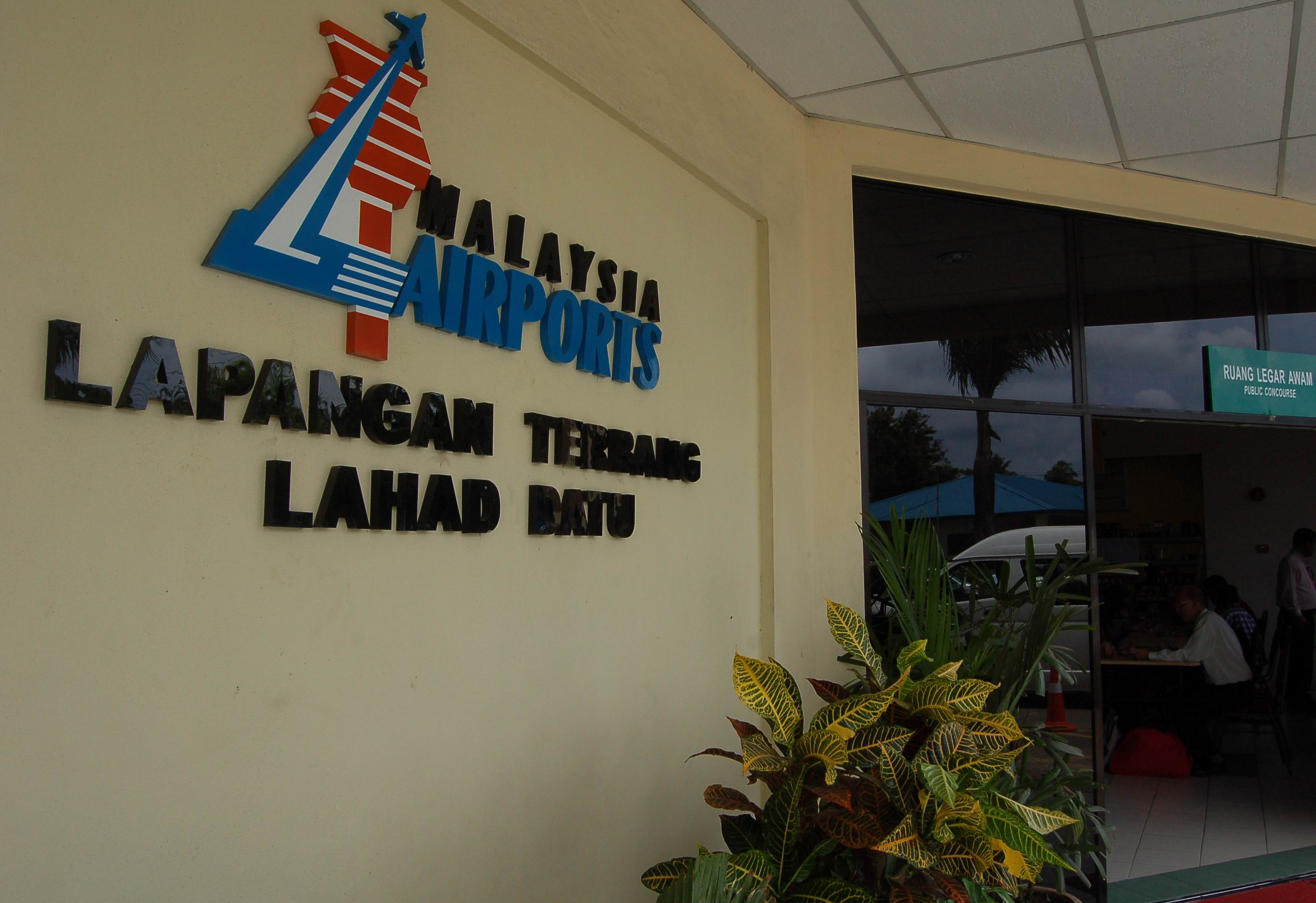 Lahad Datu Airport